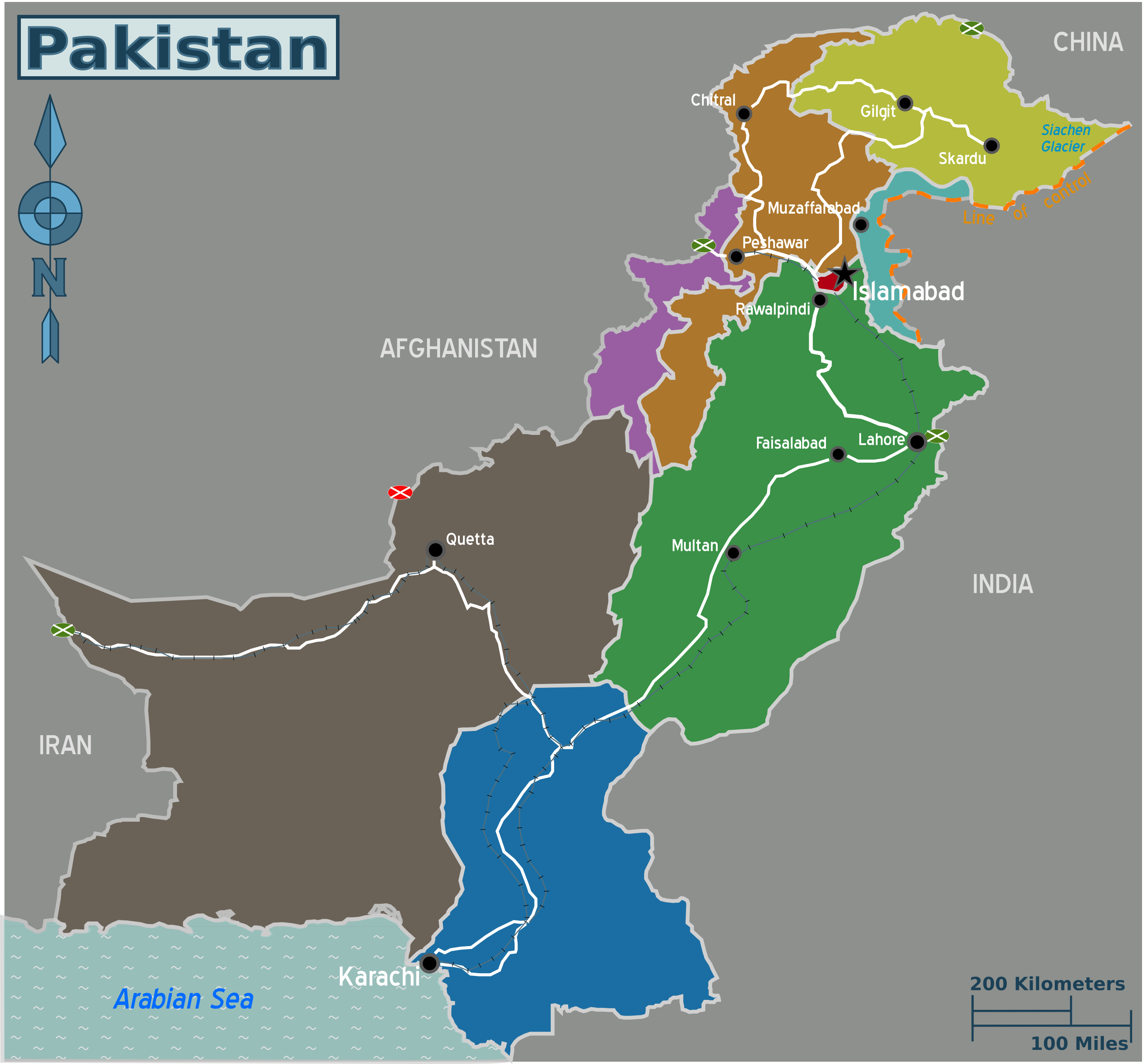 Map of Pakistan and its regions for use on Wikivoyage, English version